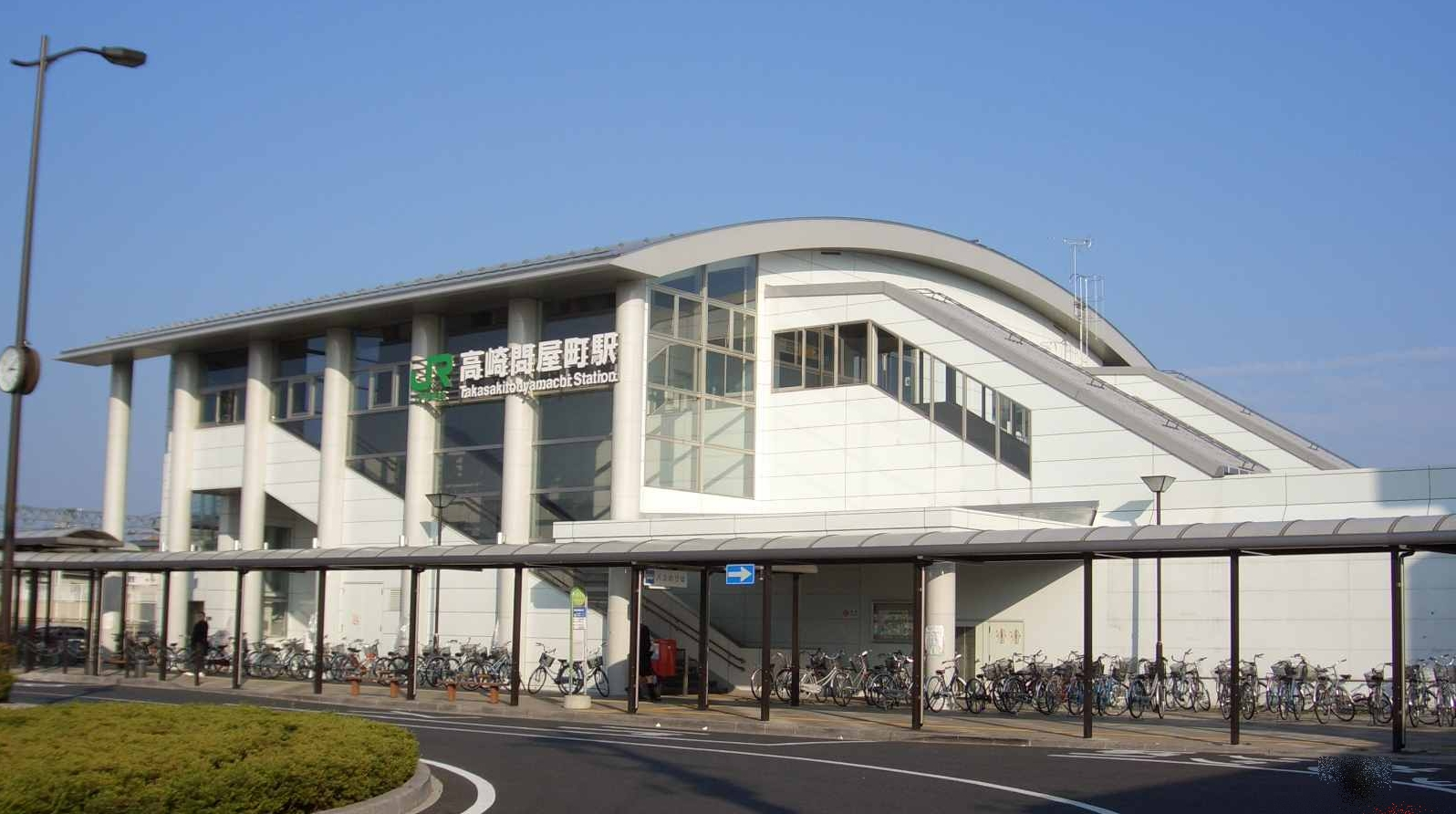 West entrance of Takasakitonyamachi Station on the Joetsu Line